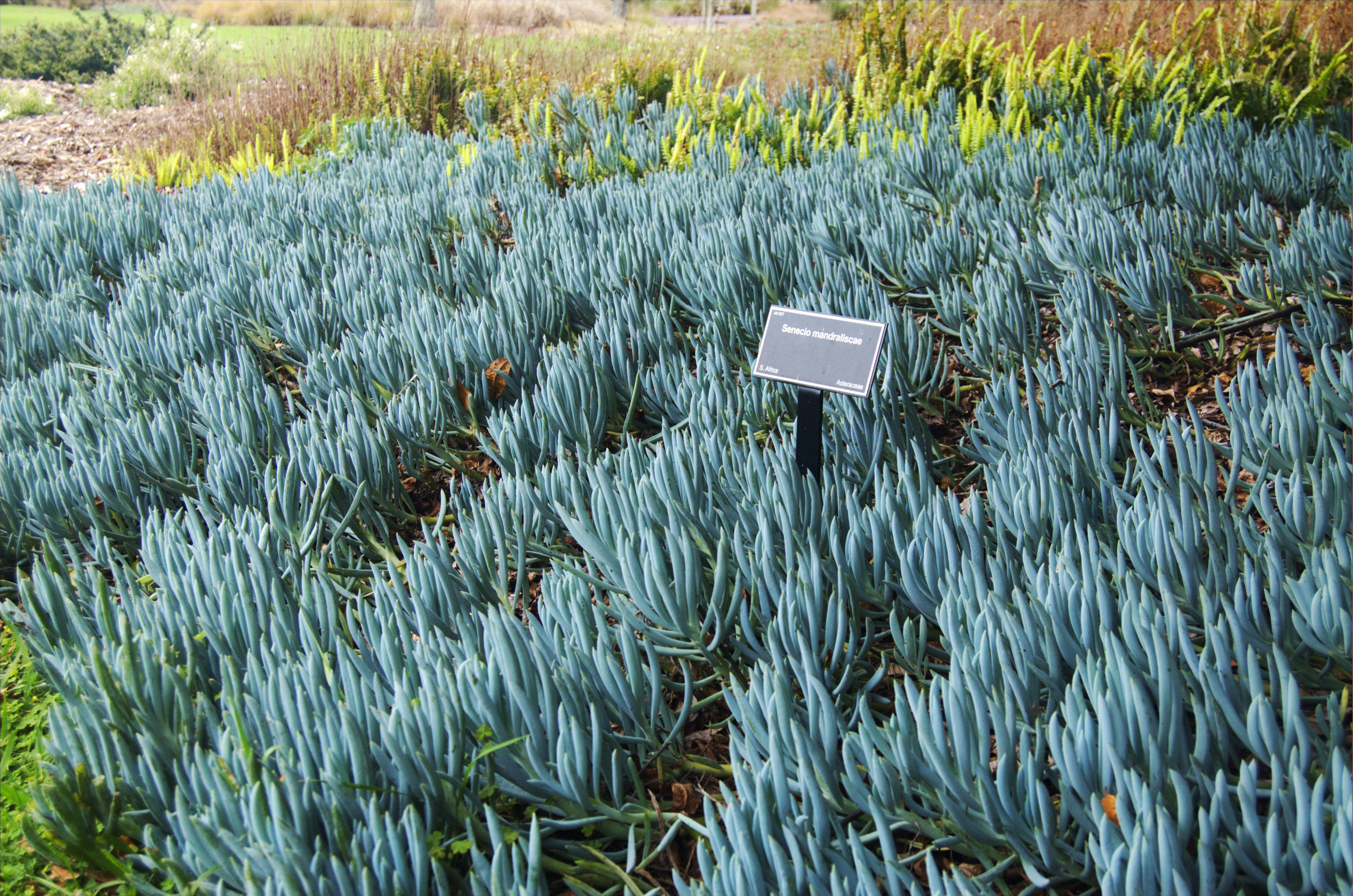 Picture of Senecio mandraliscae from Auckland Botany Gardens